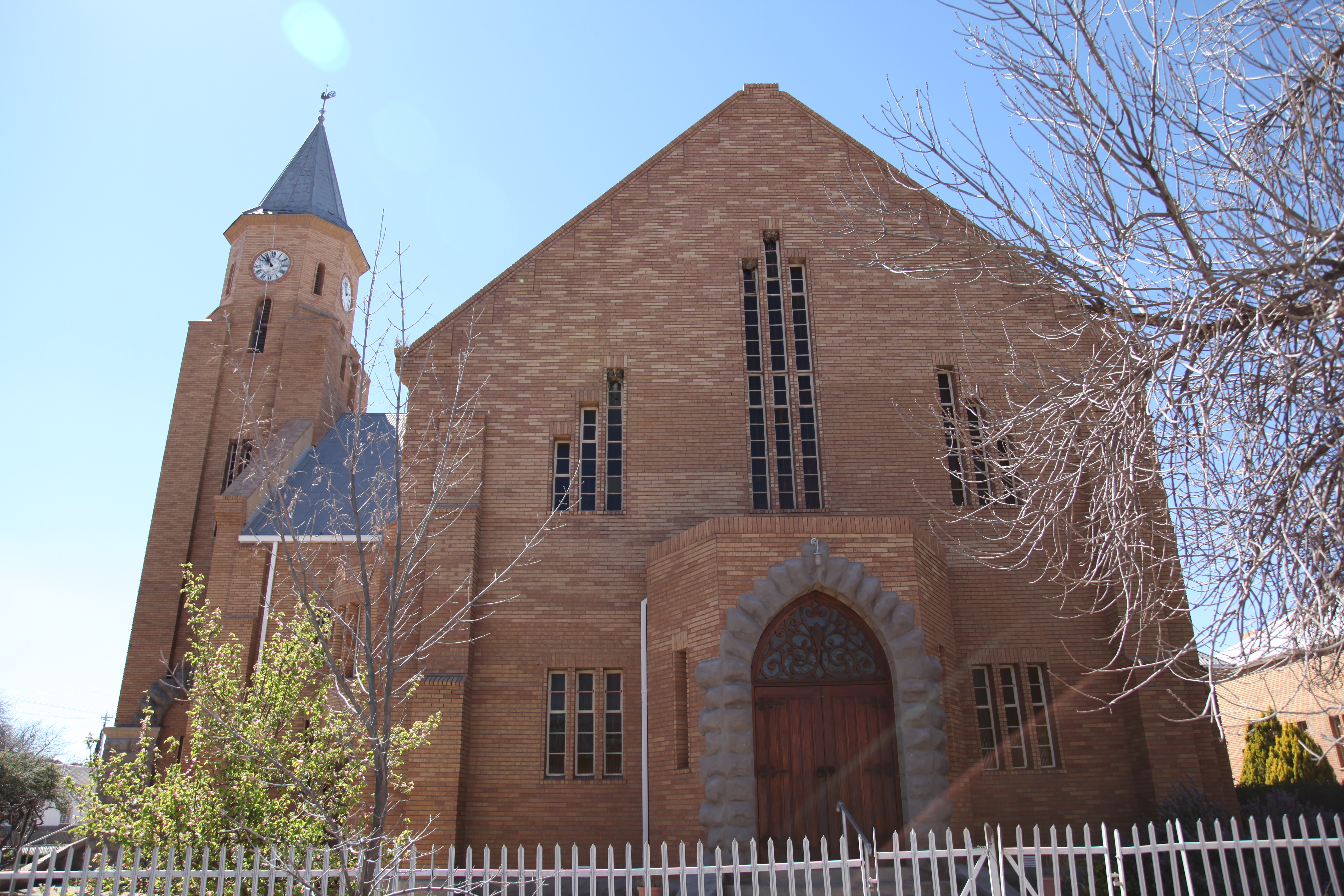 NGK Kerk in Steynsburg - South Africa